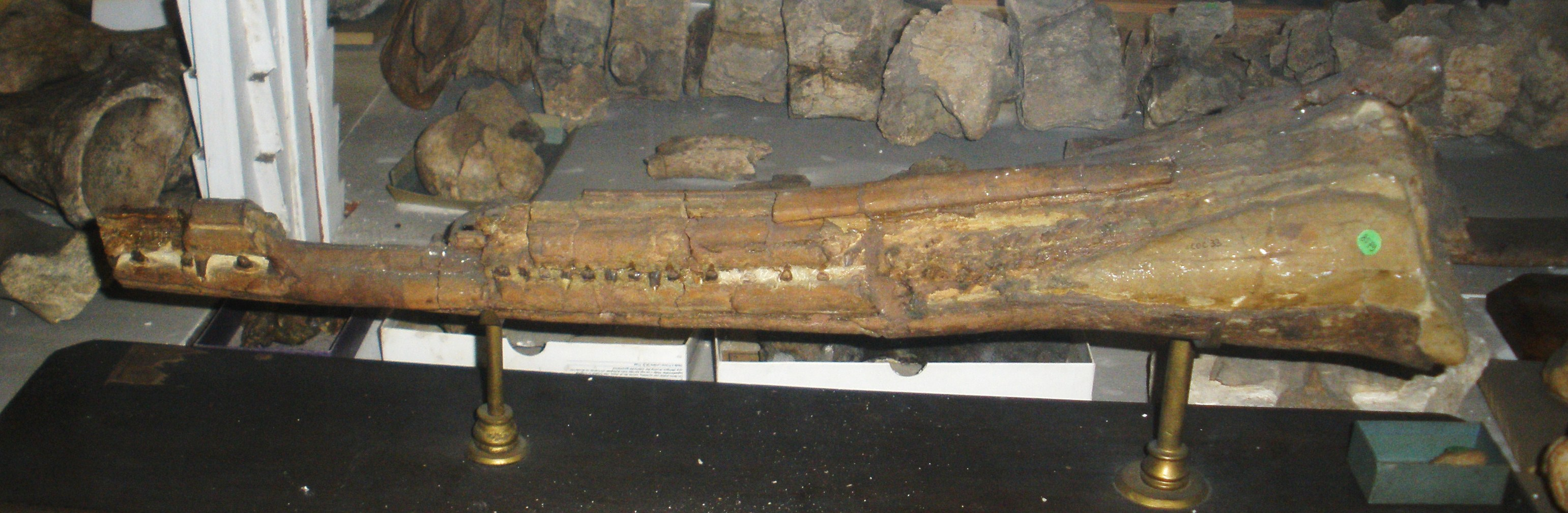 Fossil of Neosqualodon, an extinct whale